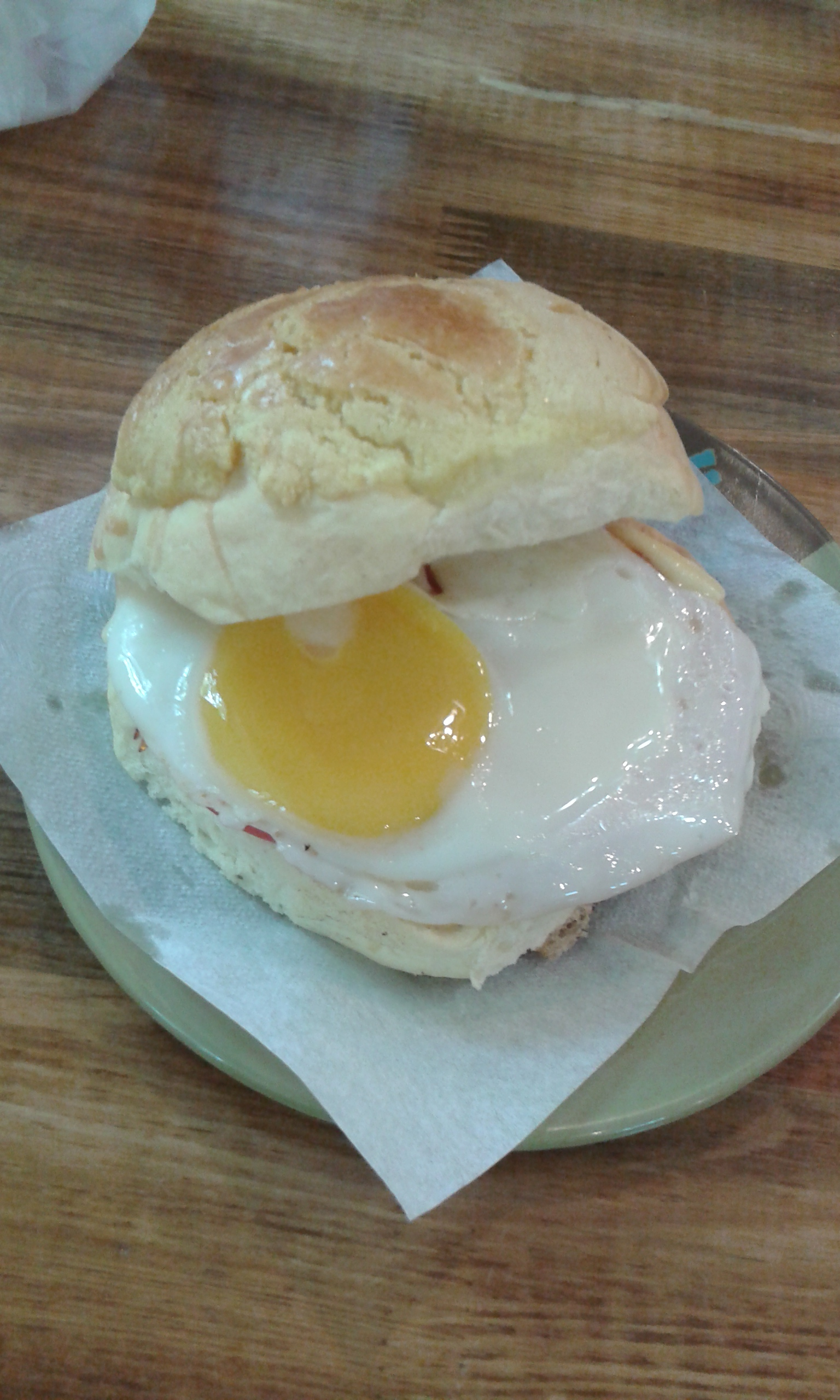 pineapple bun with fried egg and tomato (in Macau) This photo has been taken in the country: China